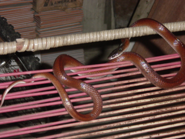 Snake Pseudoboa neuwiedii photographed in a house in El Limón (Aragua State, Venezuela).